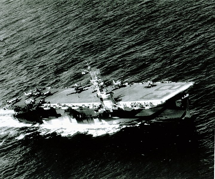 USS Sargent Bay (CVE-83) underway in 1944, camouflaged in Measure 32, Design 15A.